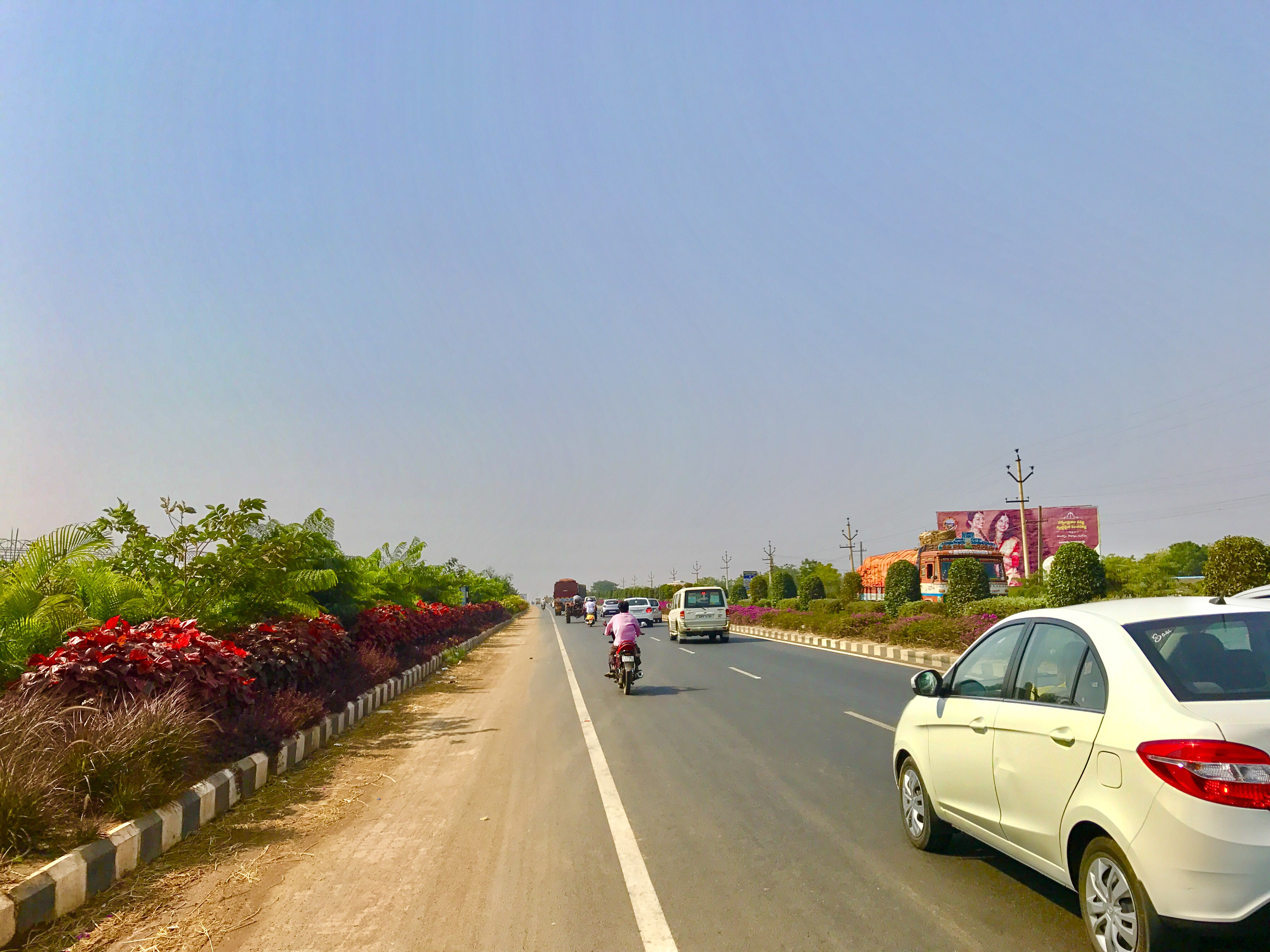 CRDA Greenway near Gannavaram